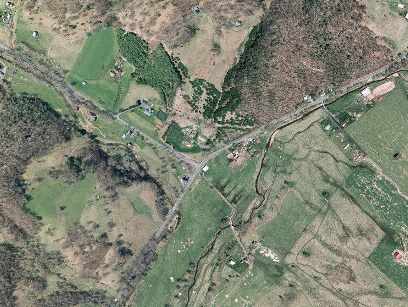 Aerial view of Vanderpool, Highland County, Virginia. The intersection of U.S. 220 and VA SR 84 is located in the center of the image.